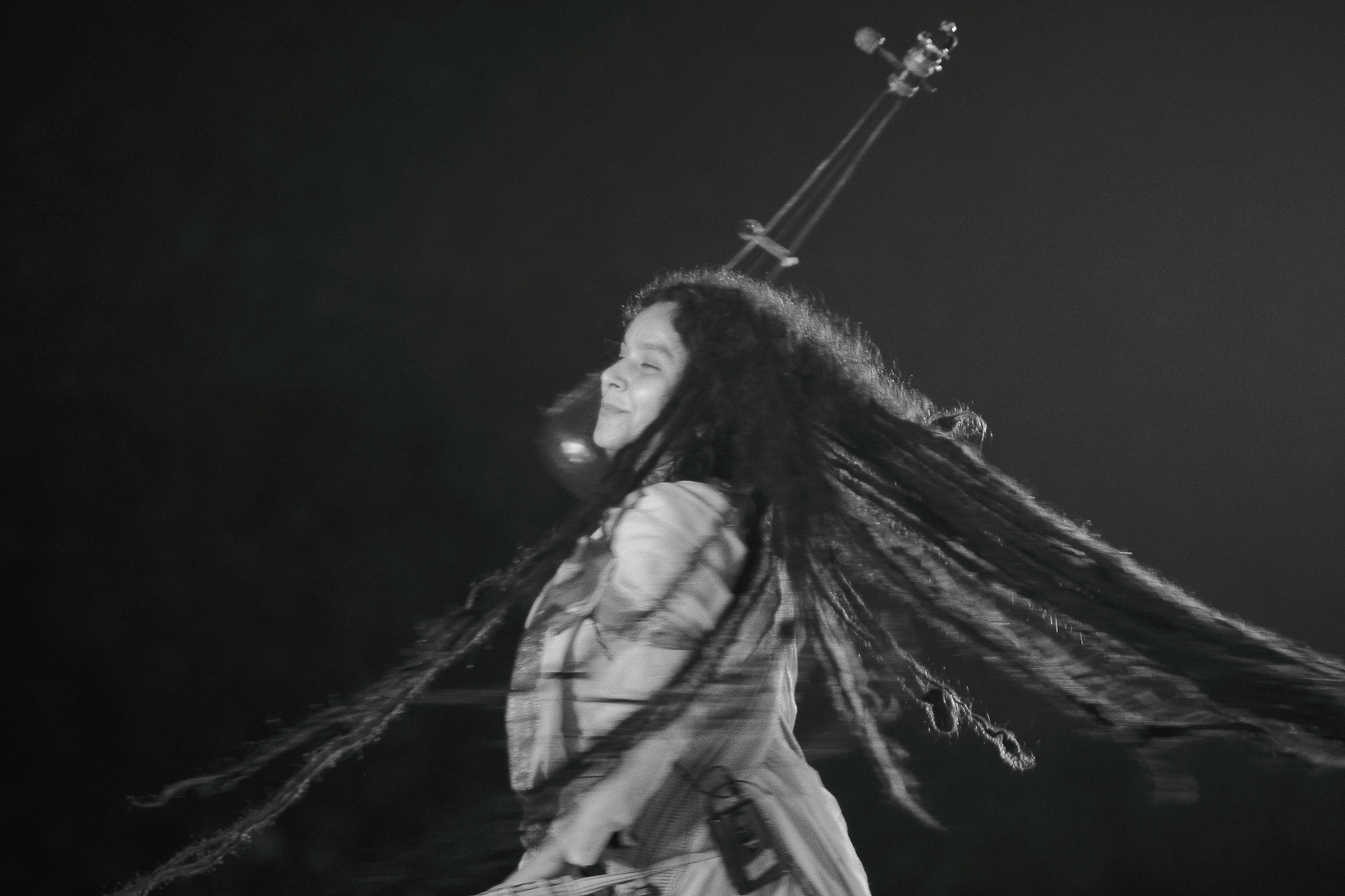 Baul, are a group of mystic minstrels from Bengal